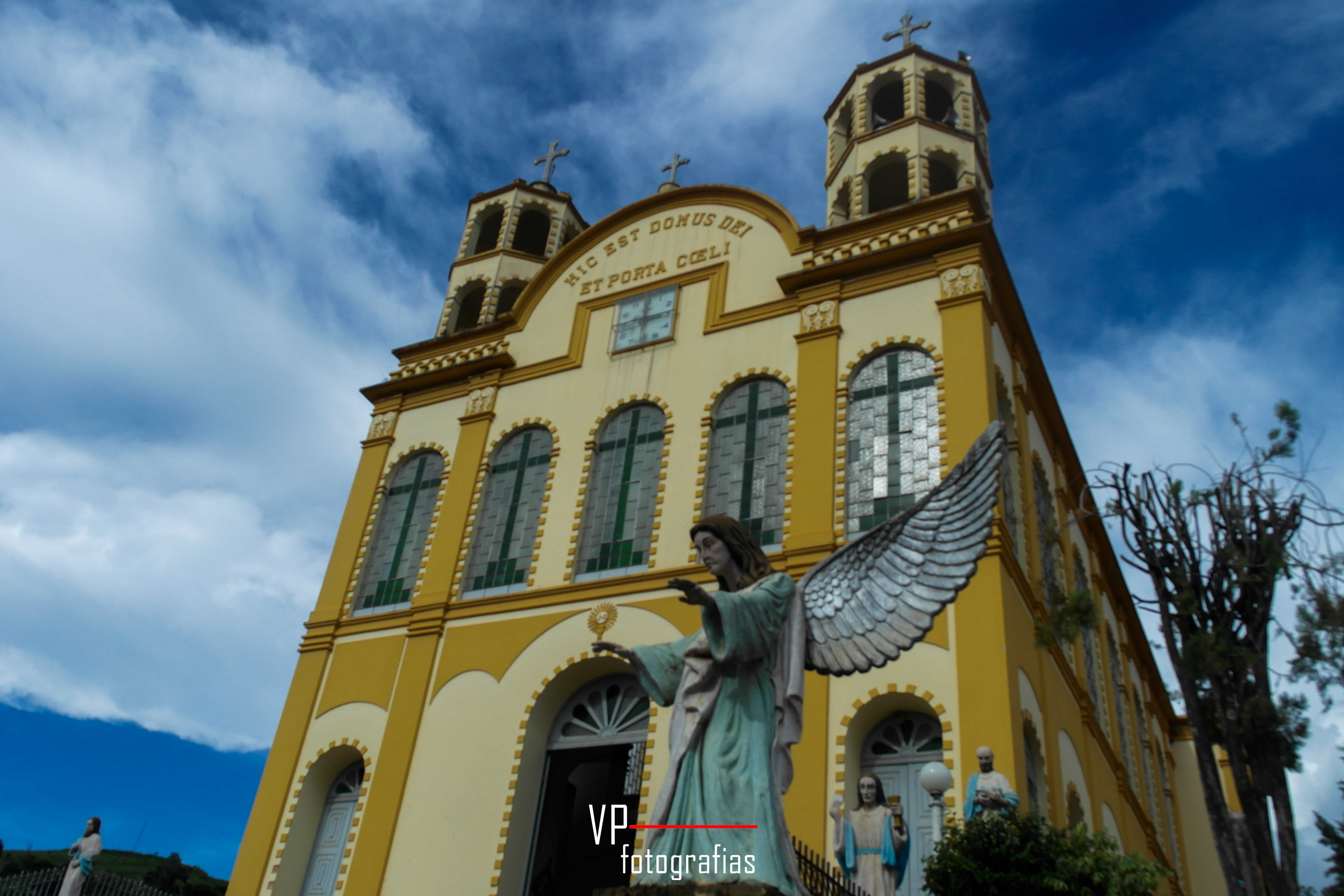 Bom Jesus do Galho - State of Minas Gerais, Brazil